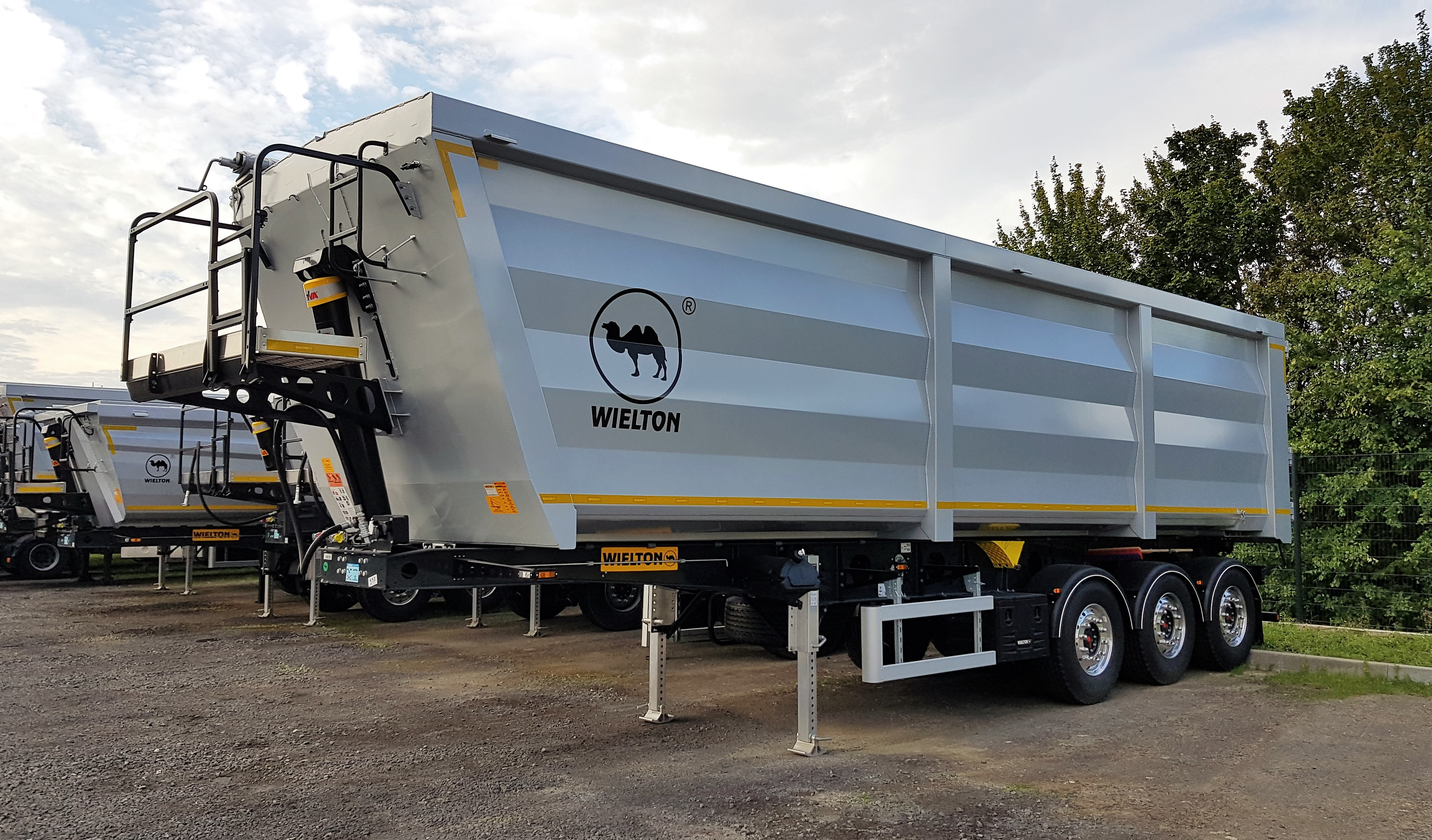 Tipper semi-trailer by Wielton.